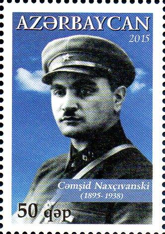 N 1224 - 50 qapik – The 120th Anniversary of the great Azerbaijan military commander Jamshid Nakhchivanski.